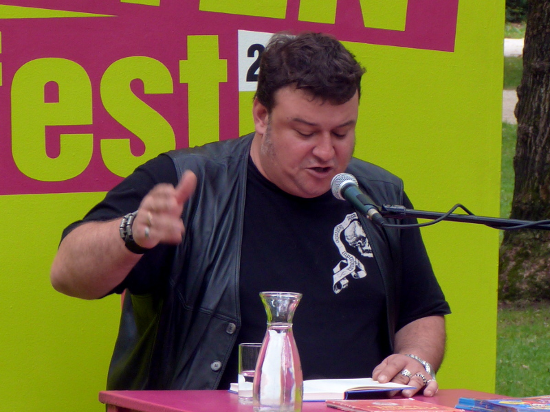 Austrian writer Christoph Mauz reading at the Erlanger Poetenfest 2013.